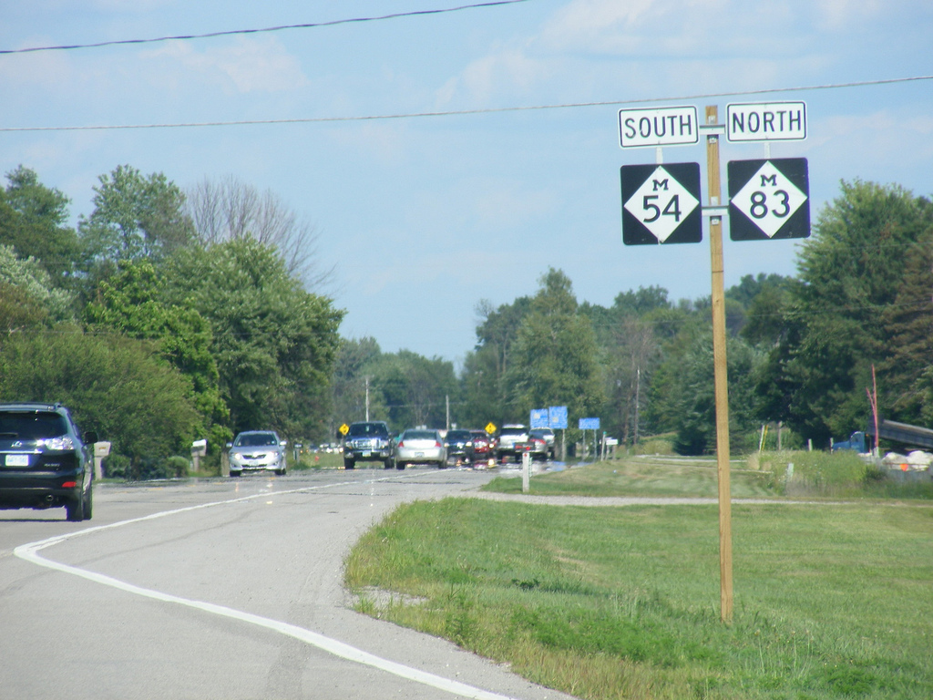 Michigan highways M-54 and M-83 as a "wrong-way concurrency", near Frankenmuth, Michigan, in the United States